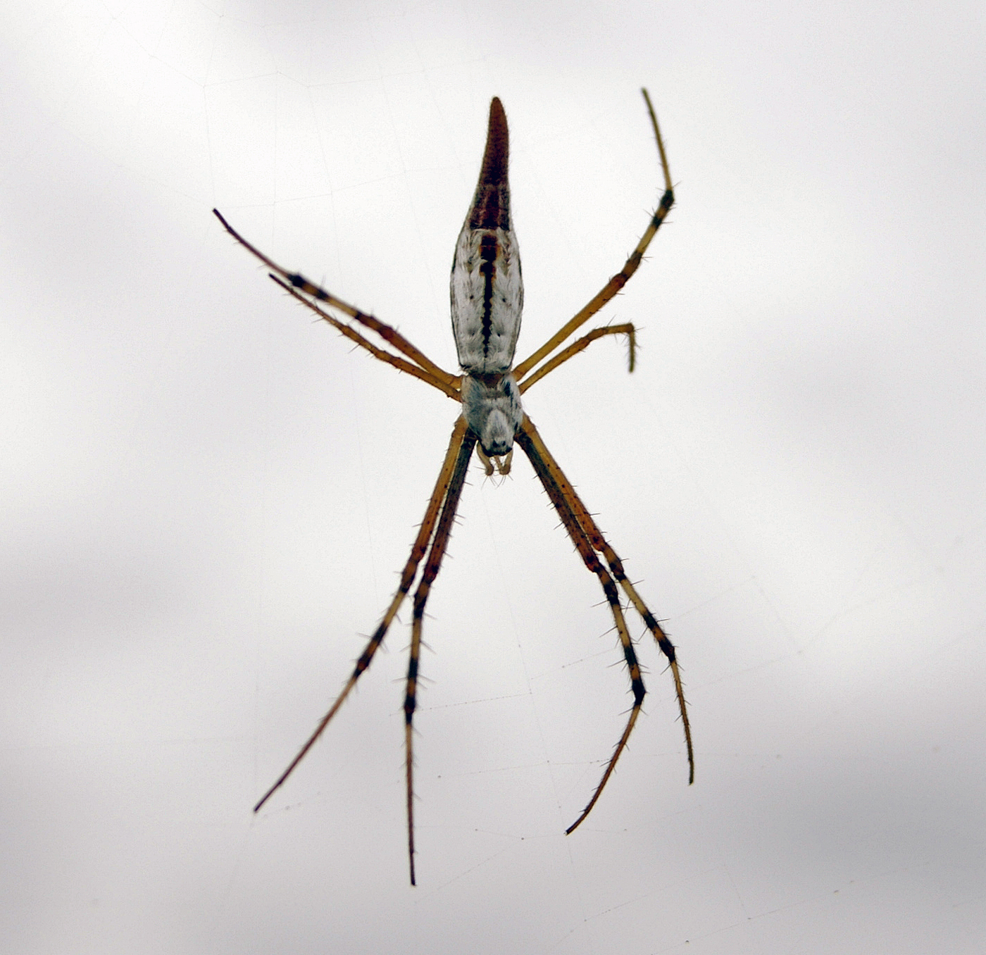 Argiope protensa[1], photographed at the Wagga Wagga Airport at Forest Hill, New South Wales.